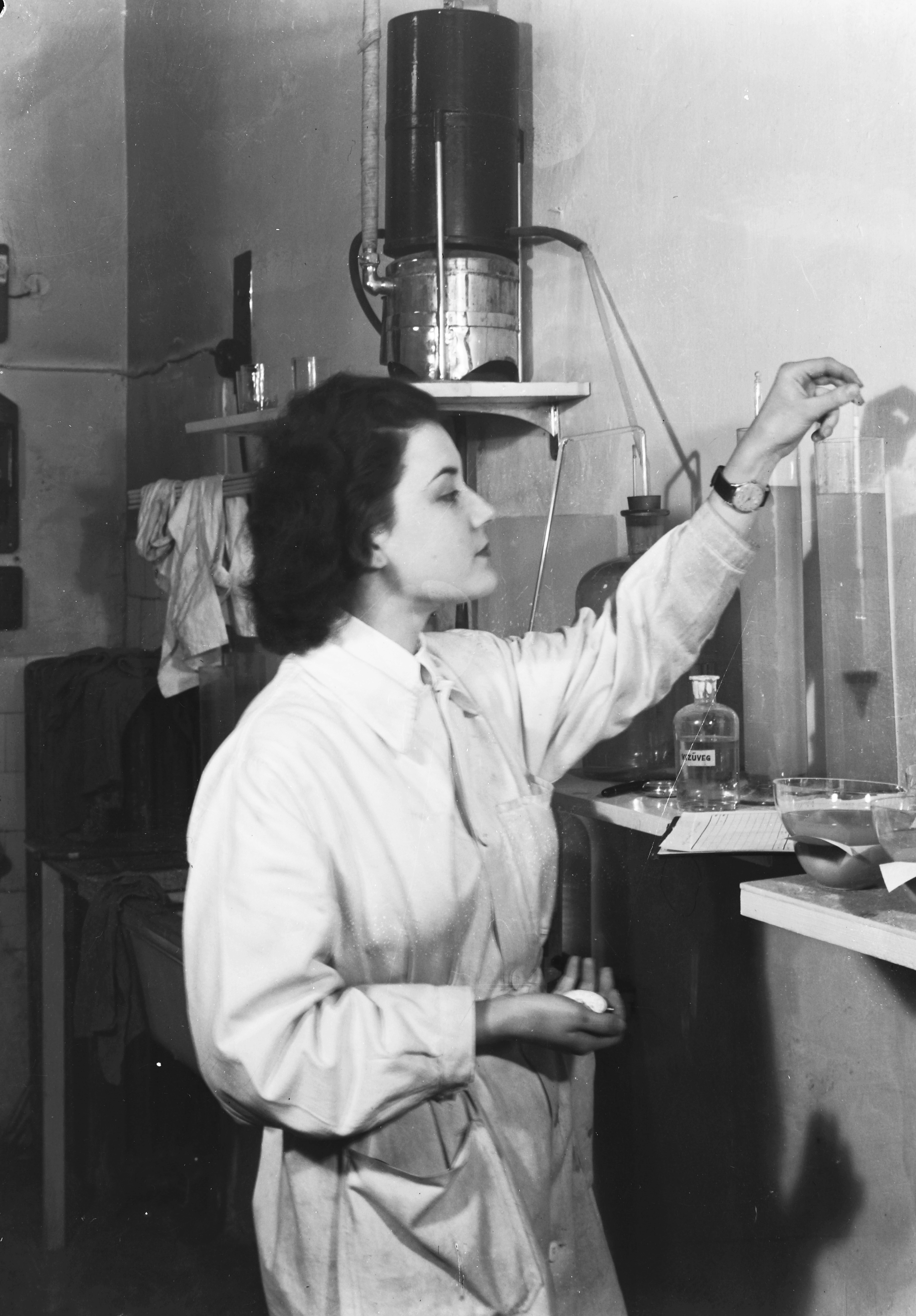 Tags: laboratory, aerometer, woman, portrait, work